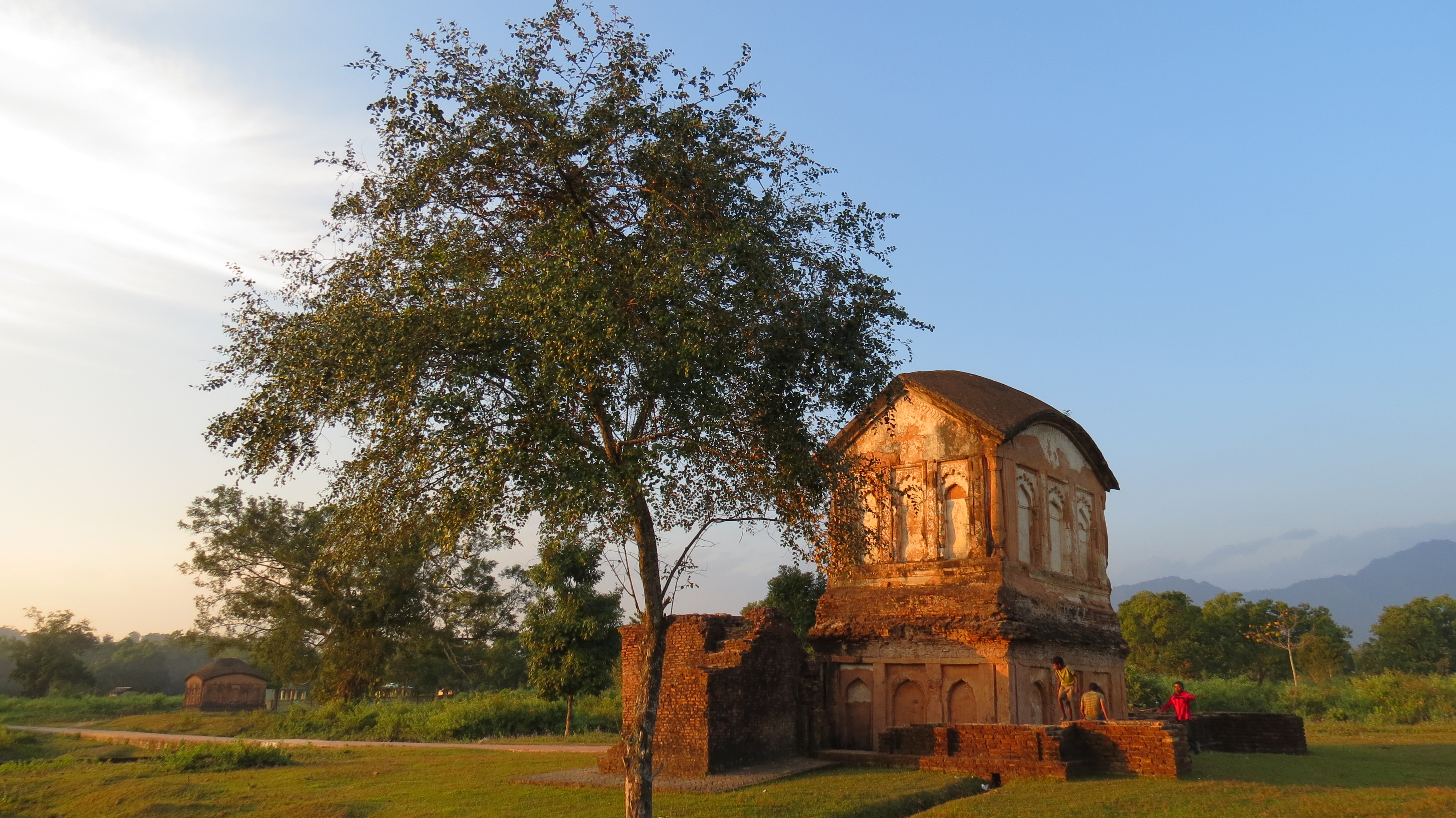 Ruins of Kachari kingdom, Khaspur, near Silchar